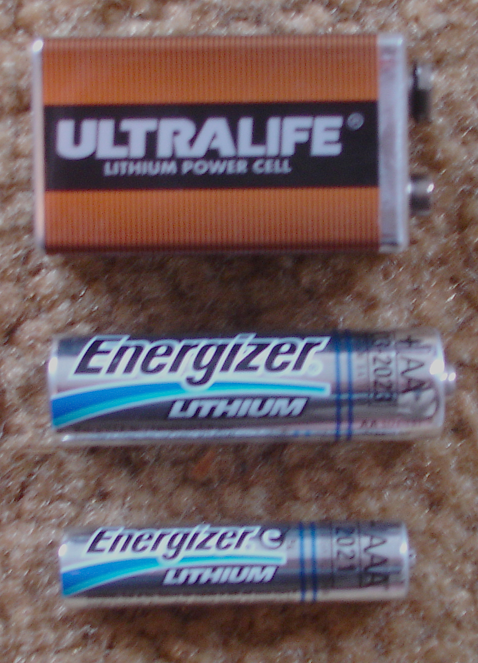 Lithium batteries in PP3 "9 volt", AA, and AAA sizes.